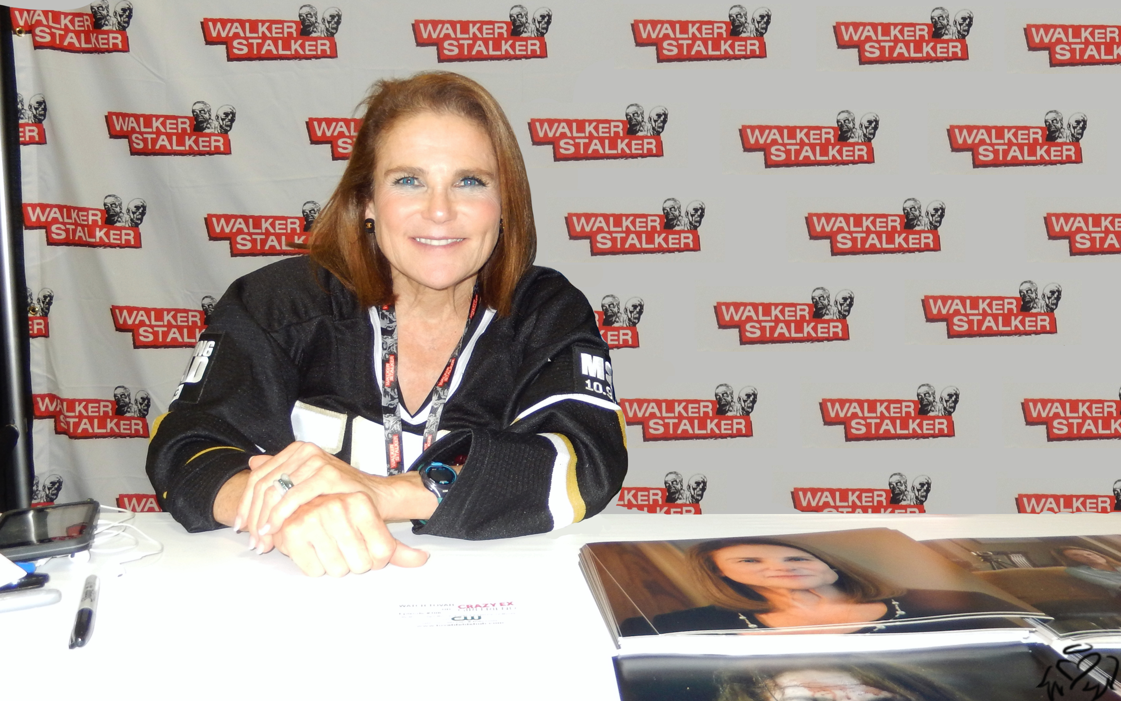 Walker Stalker Con